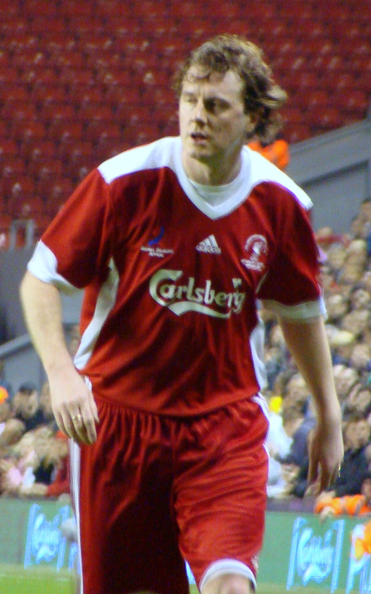 English football player Steve McManaman during Hillsborough Memorial Match.